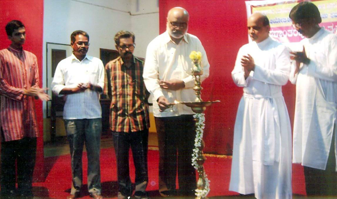 N Damodar Shetty 12